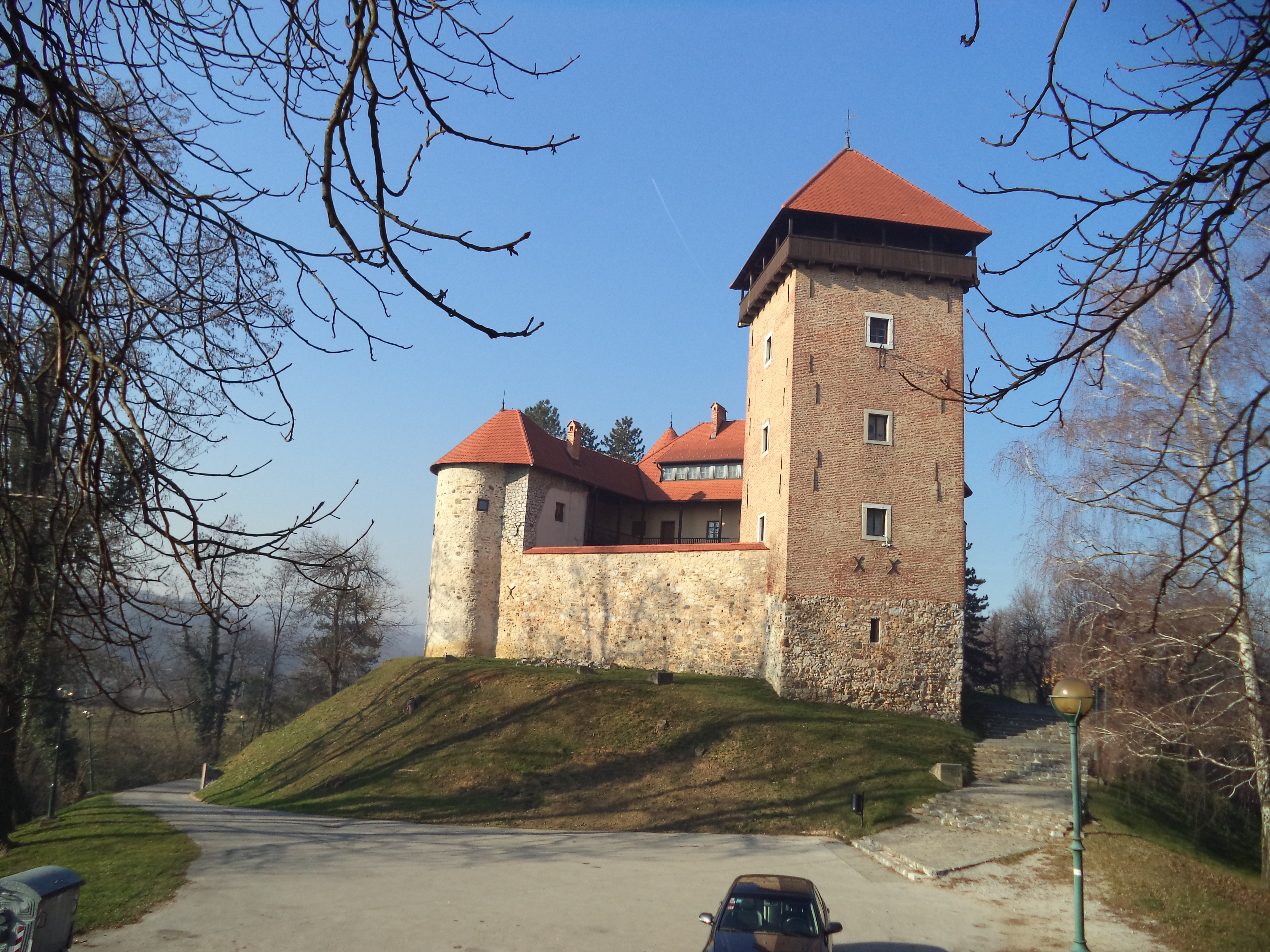 Dubovac Castle